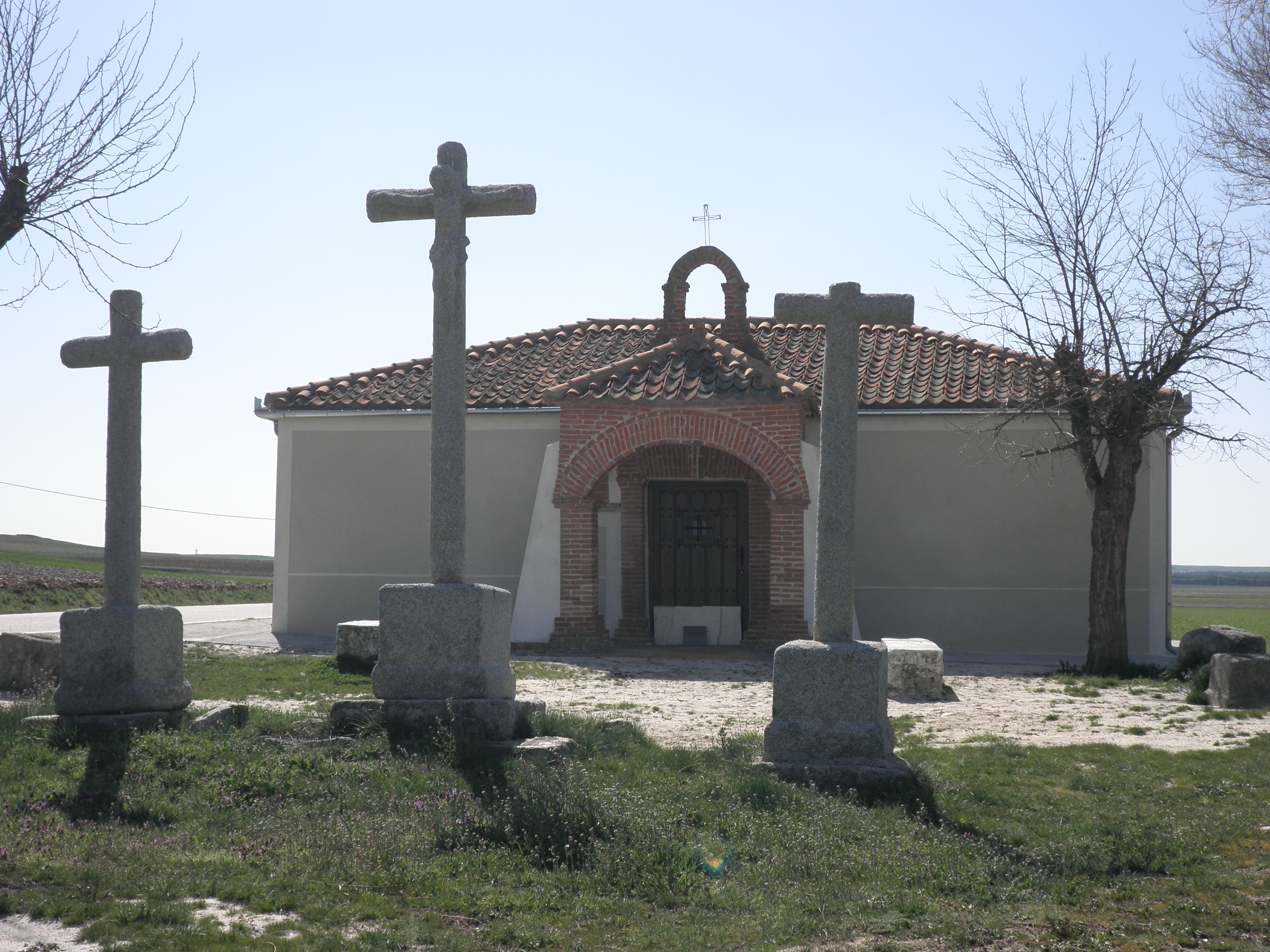 Facade of Melque de Cercos Chapel, in Segovia province, Spain.